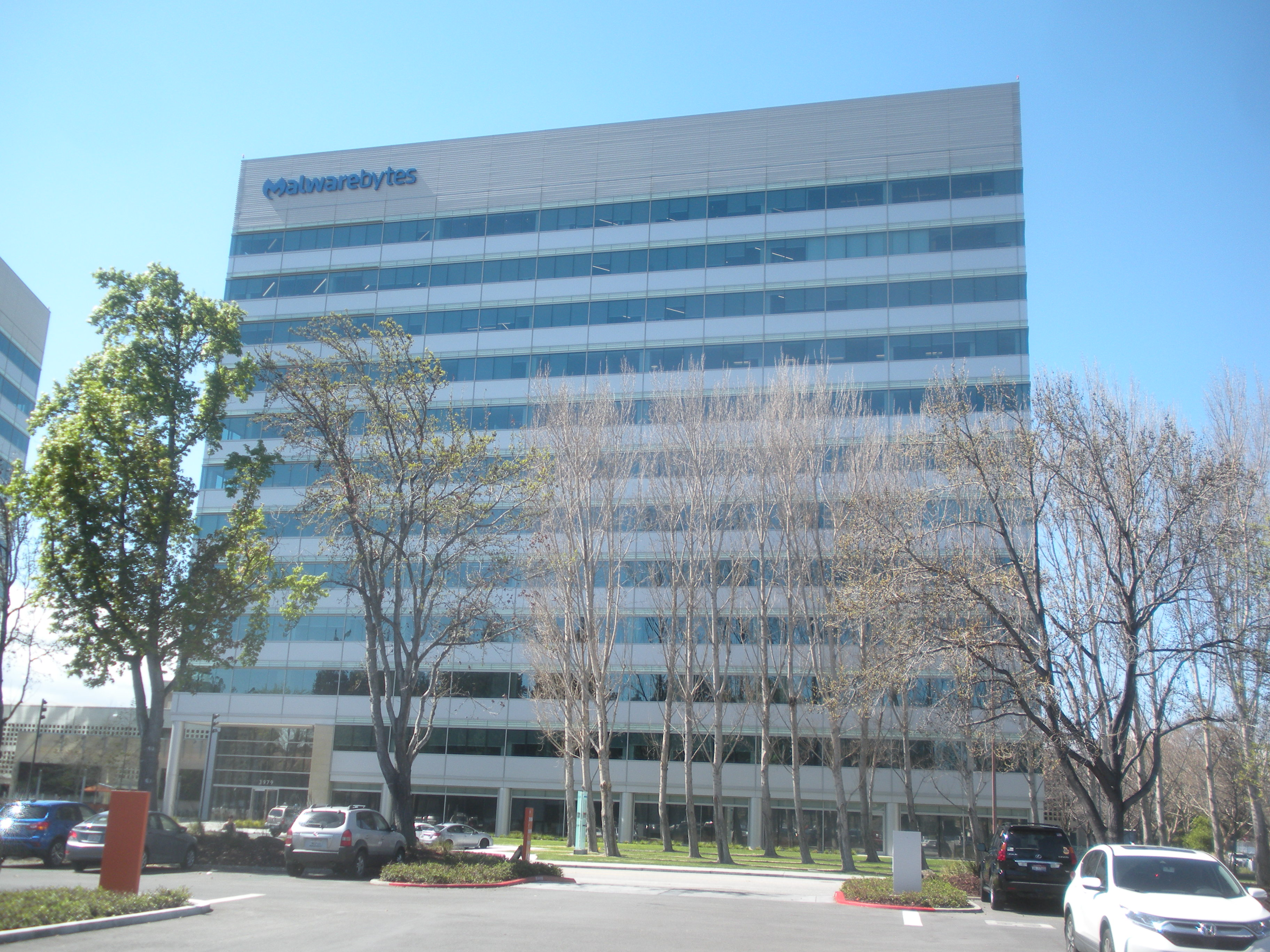 The Malwarebytes headquarters in Santa Clara, California. Originally posted to my Flickr